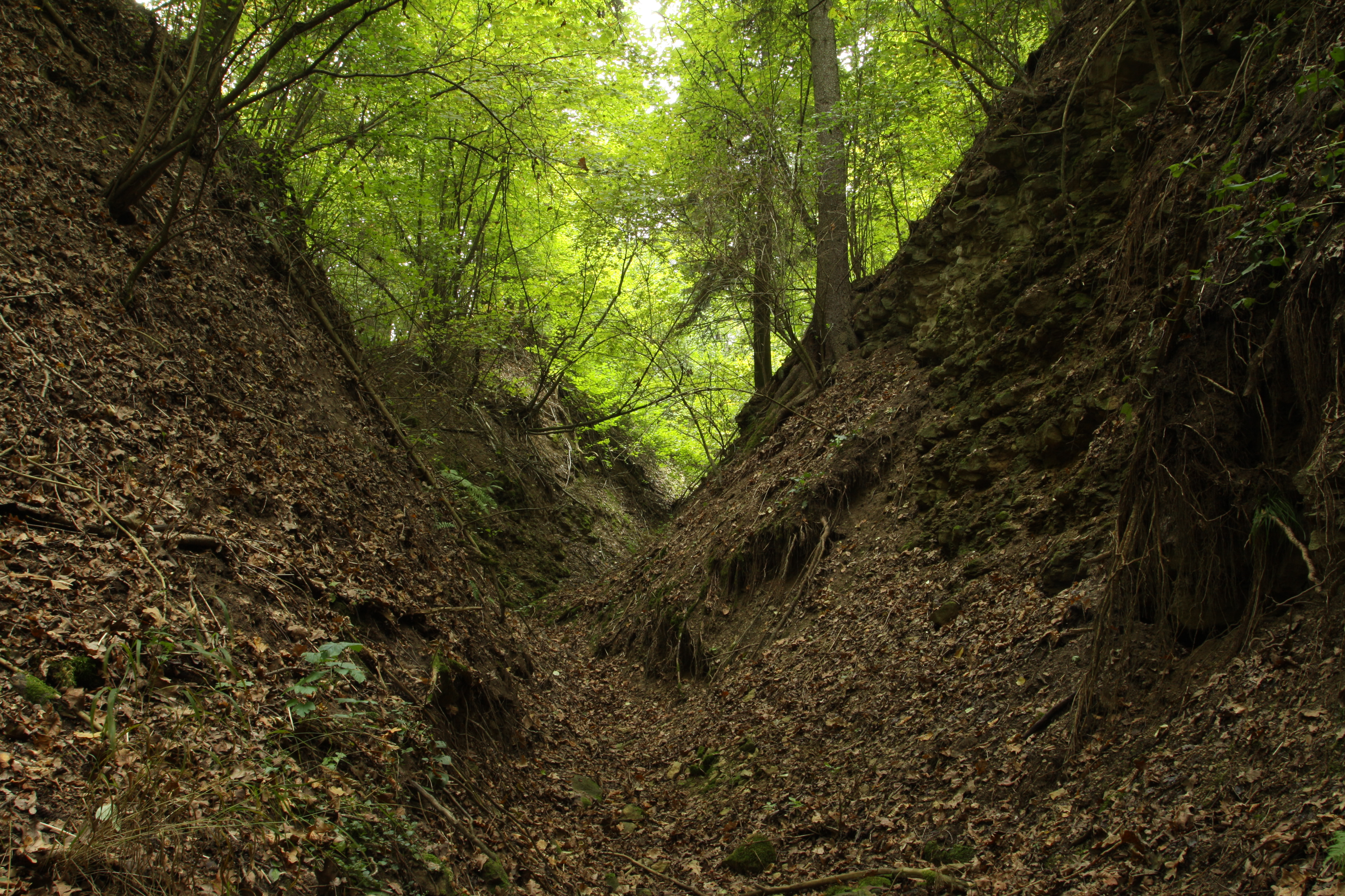 Natural monument Slepeč near Kochánky village in Mladá Boleslav District, Czech Republic - Google Maps - Google Earth